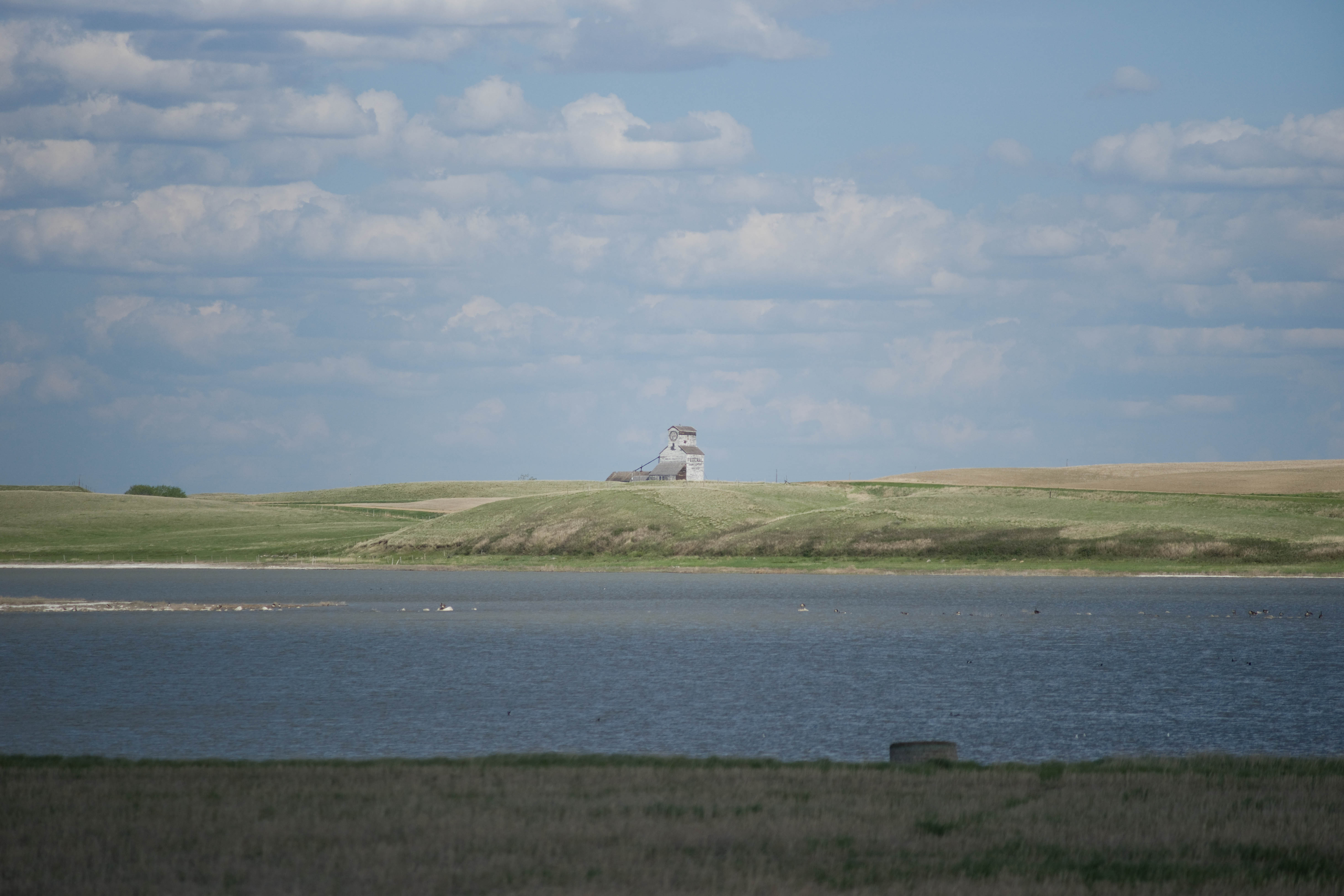 From